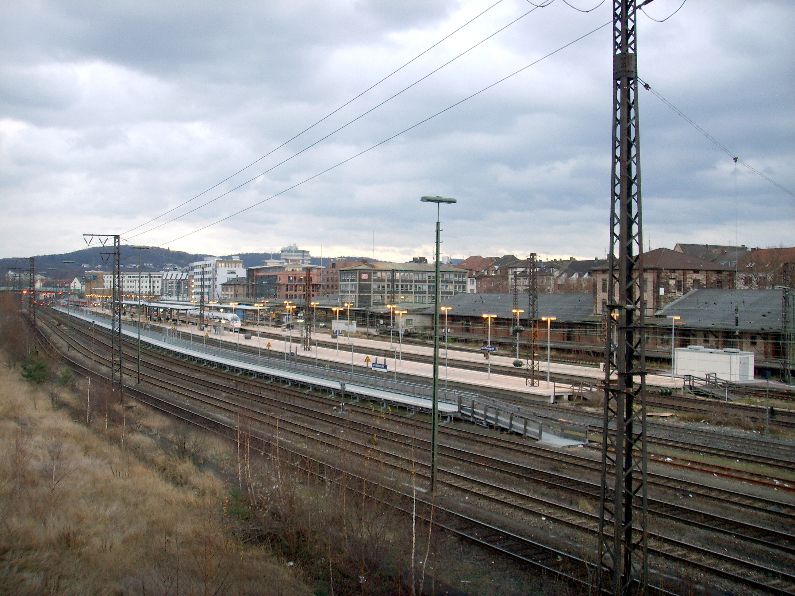 Main Station Aschaffenburg, Germany